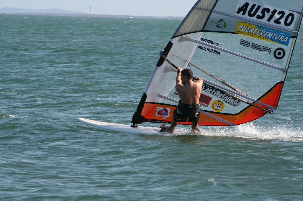 Sean O'Brien, Professional Windsurfer.